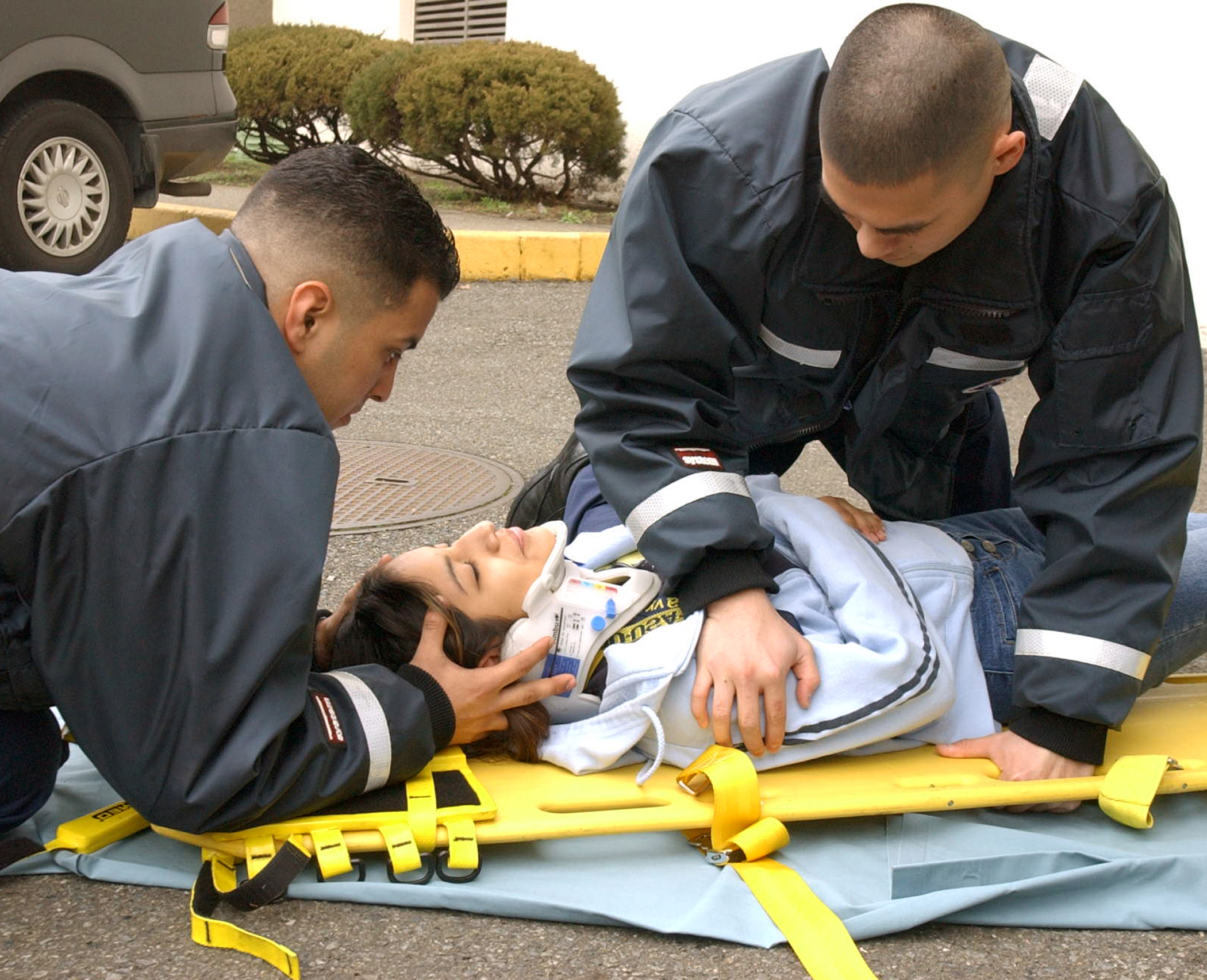 U.S. Naval Hospital Yokosuka, Japan (Mar. 23, 2004) – Hospital Corpsman Fernando Prieto and Hospital Corpsman Raulito Galgana demonstrate life saving techniques in the parking lot outside the Emergency Room of U.S. Naval Hospital Yokosuka, Japan as Navy nurse Lt. Harriett Bates describes the action to local high school students. Hospital staff members regularly provide tours and demonstrations to community groups. U.S. Naval Hospital Yokosuka provides healthcare services to beneficiaries throughout the Western Pacific. U.S. Navy photo by Tom Watanabe. (RELEASED)